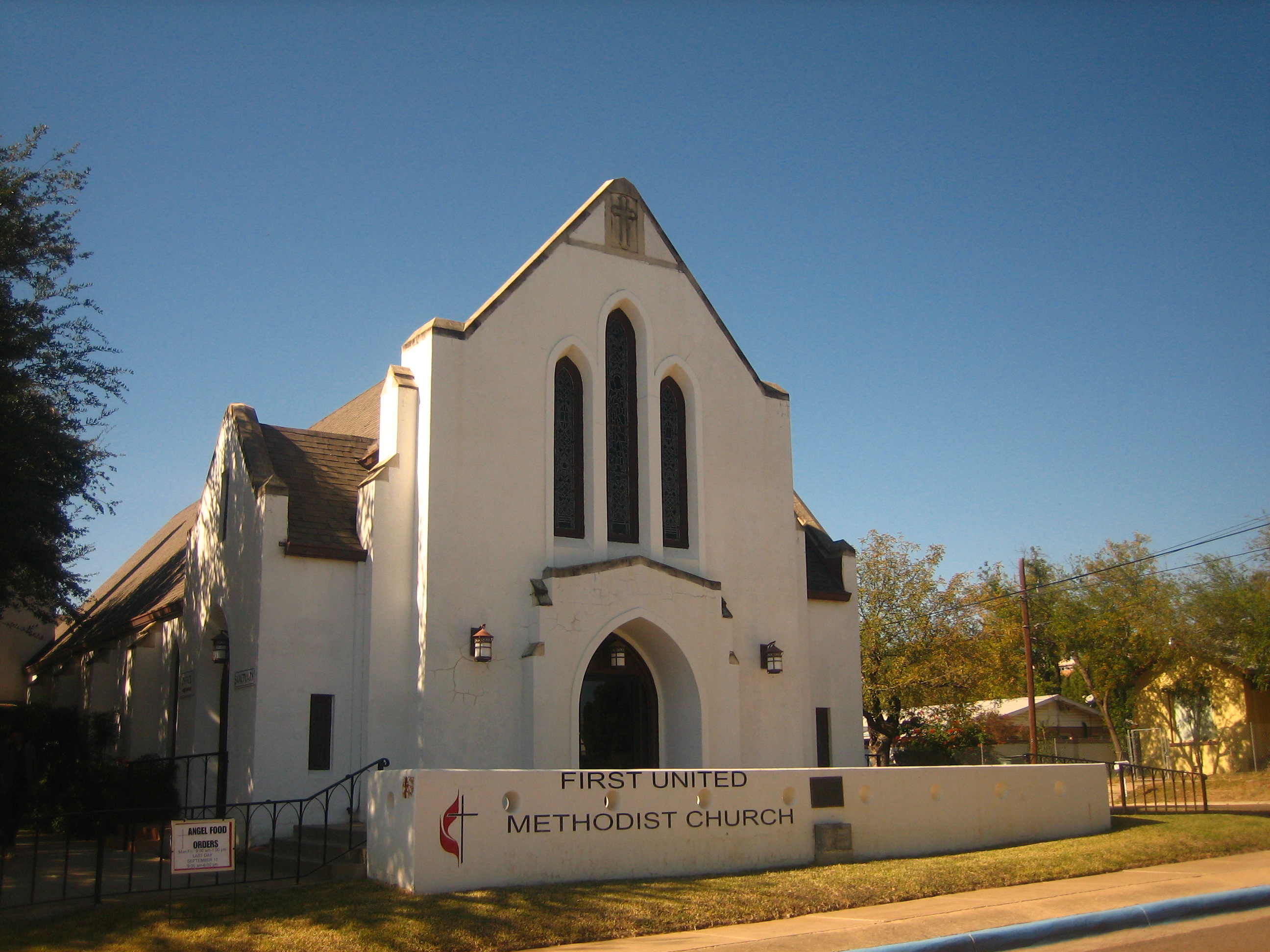 I took photo on Dec. 7, 2008.Billy Hathorn (talk) 02:54, 8 December 2008 (UTC)